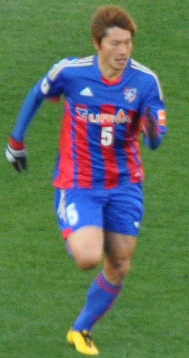 Kenichi Kaga from FC Tokyo